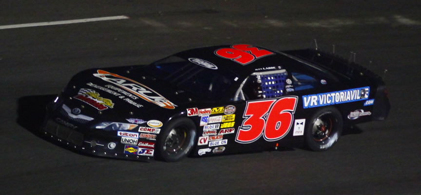 Alex Labbé at l'Autodrome Chaudière on May 18, 2013. Photo credit: Paul-Émile Poulin-Jacques